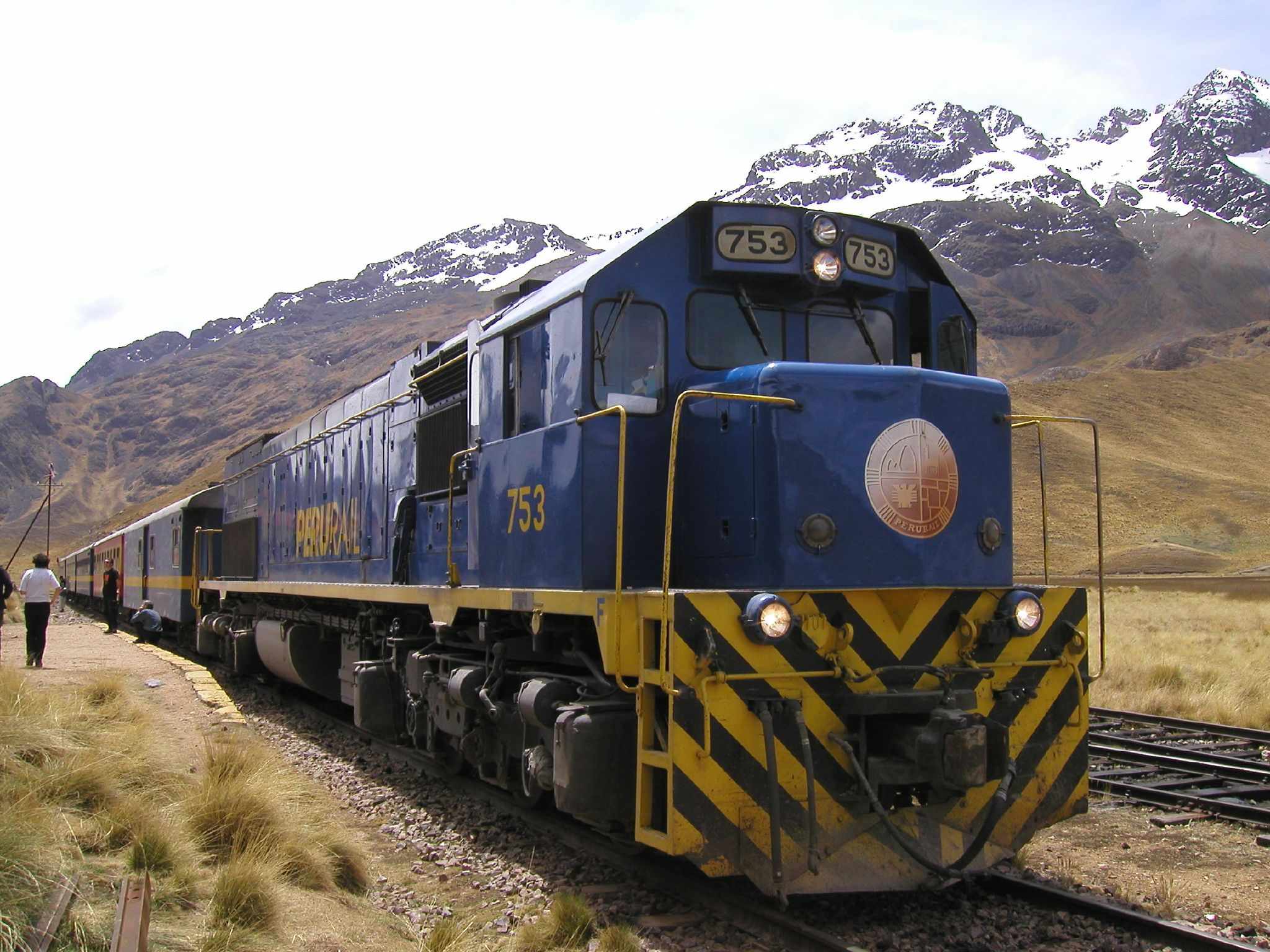 The train from Cuzco to Lake Titicaca stops at La Raya, the highest point on its journey at 4321 metres